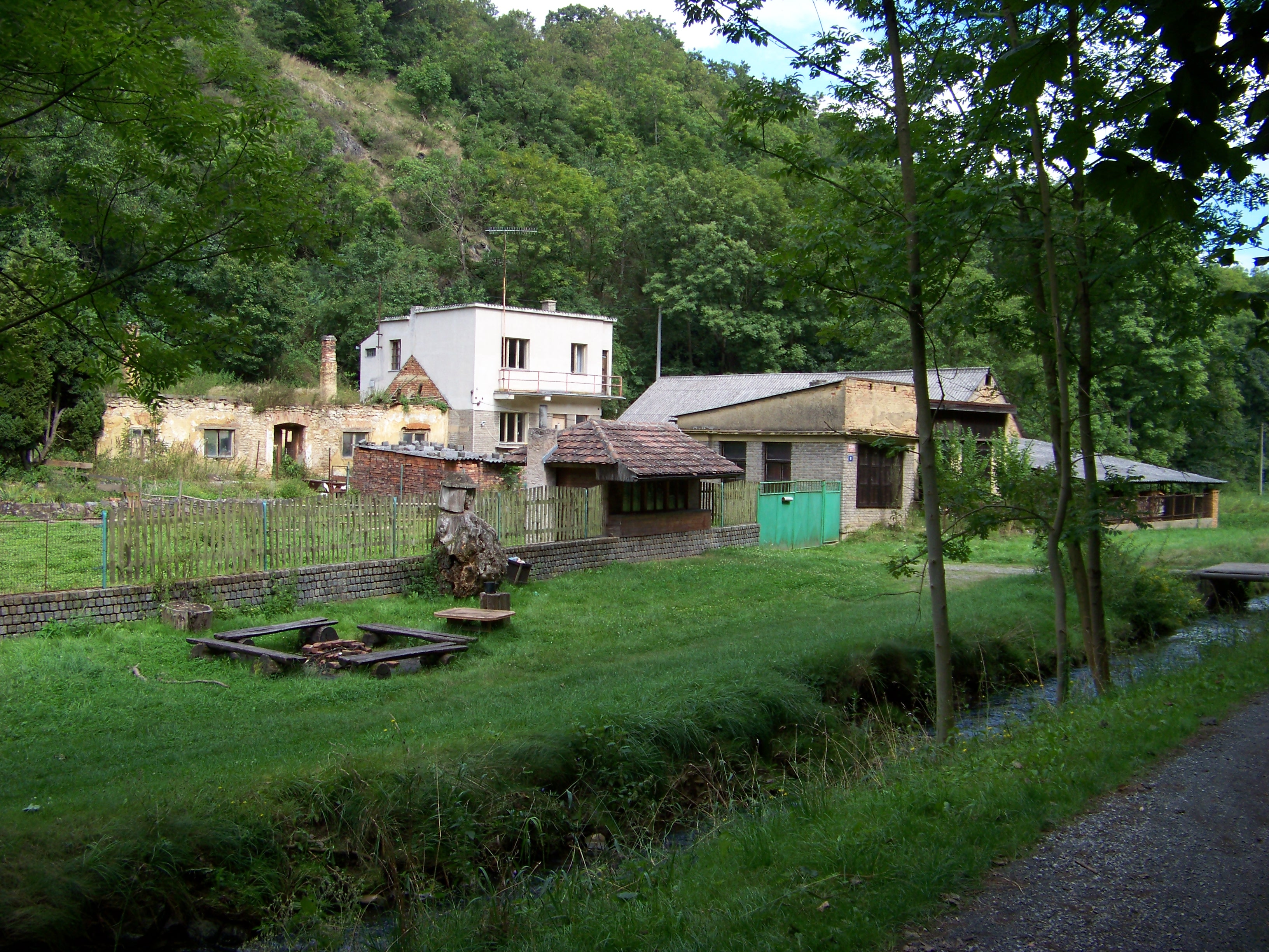 Prague-Vokovice and Dejvice, the Czech Republic. Divoká Šárka, Šárecký potok and Vizerka, U Vizerky 2299/6.